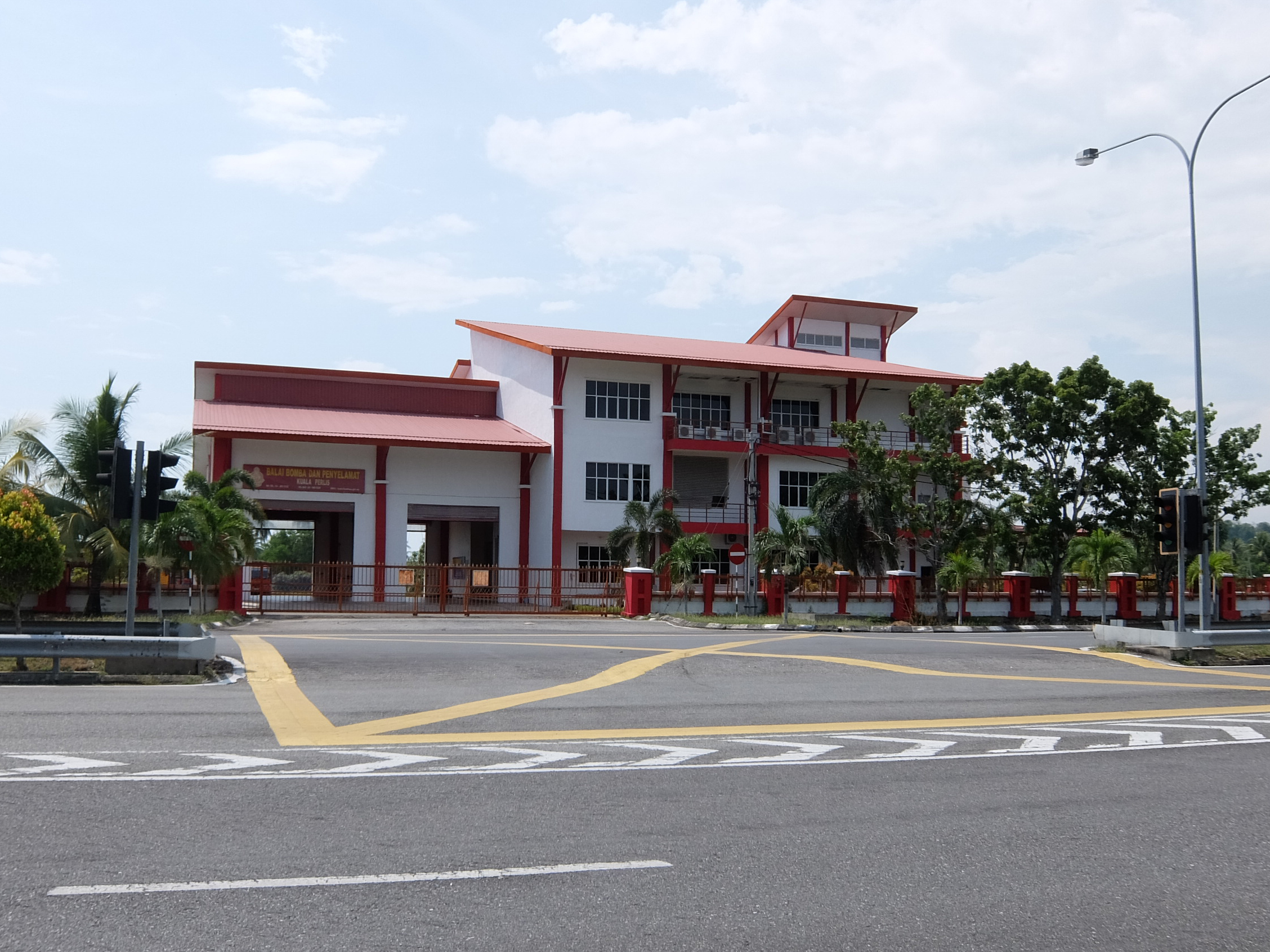 Kuala Perlis Fire Station, Kuala Perlis, Perlis, Malaysia